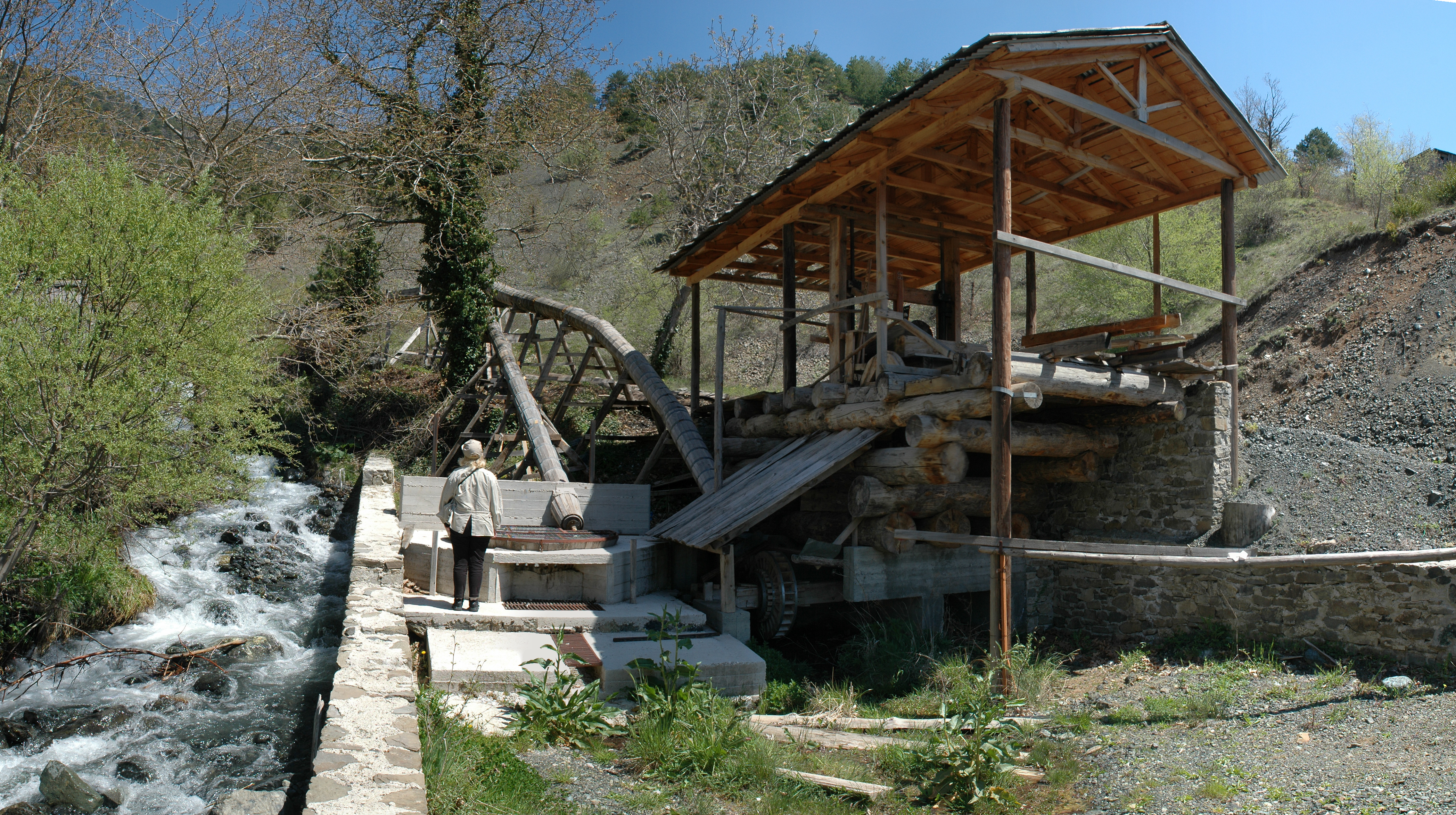 A water powered sawmill at Armata, on the slope of mount Smolikas, Epirus, Greece. The woman is standing at a water basin that is used to rinse pads of sheep wool, that are produced in the area. Panorama of two photos.